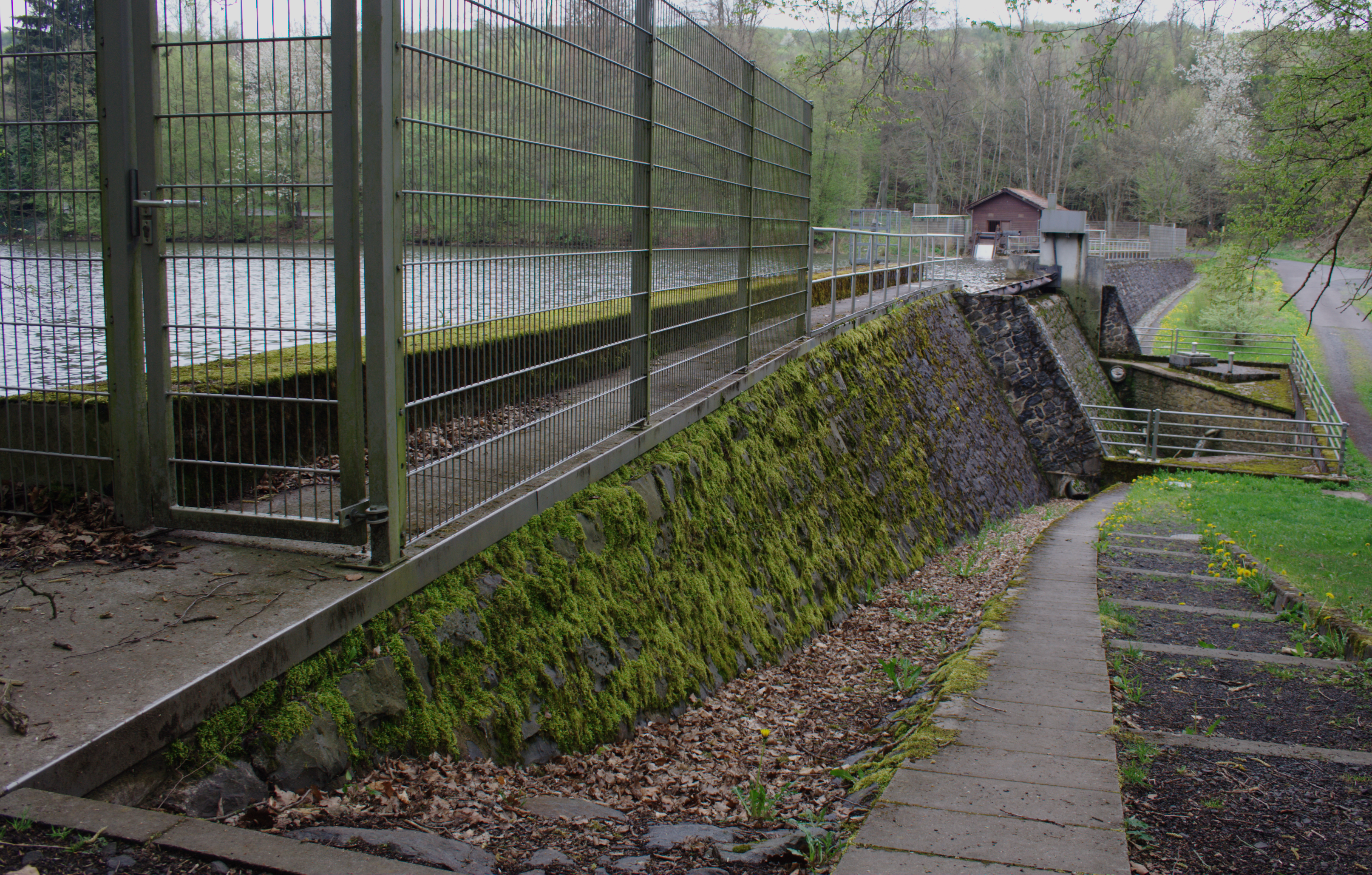 Upper reservoir (dam) of pumped storage station "Niddakraftwek Lißberg"